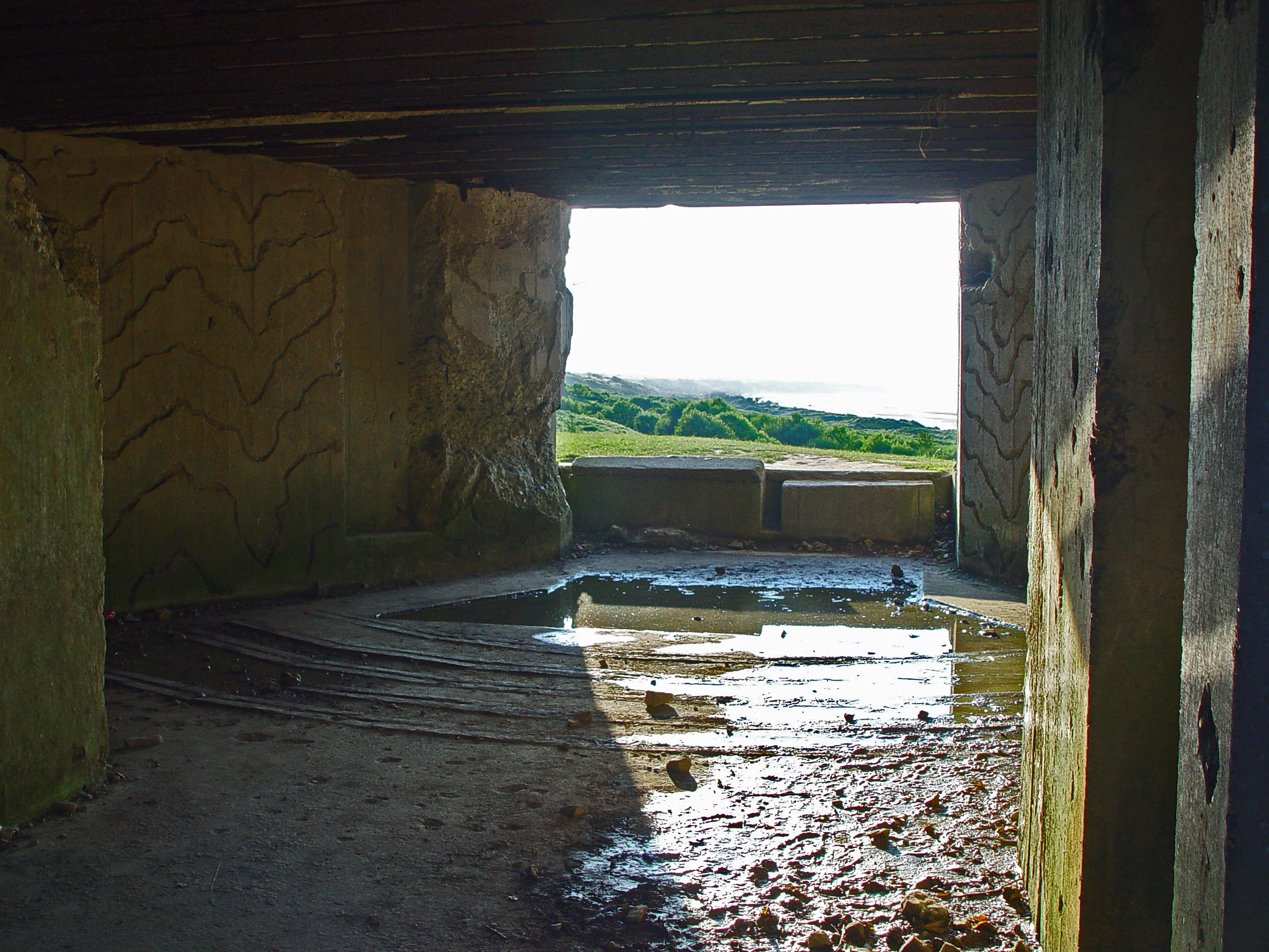 Inner view of a German Casemate at Omaha Beach, (Normandy)